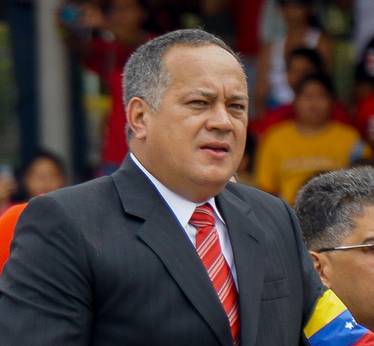 Diosdado Cabello